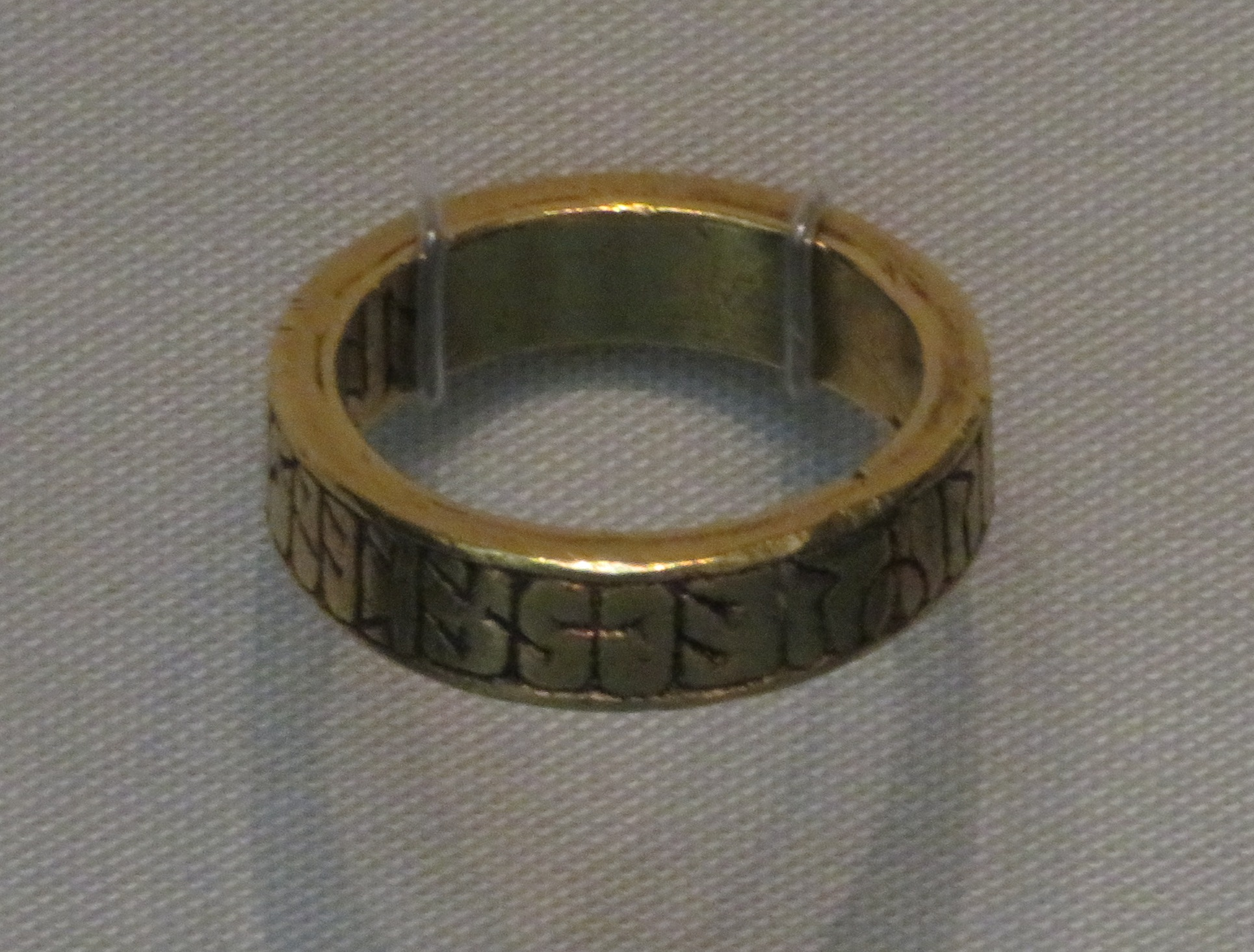 Anglo-Saxon gold finger-ring with a runic inscription, found in June 1817 at Greymoorhill, near the hamlet of Kingmoor, 2.5 miles from Carlisle, Cumbria, England. Held at the British Museum (Museum number OA.10262). Inscribed with an uninterpretable inscription comprising 30 Anglo-Saxon runes (last 3 on inside): +ÆRKRIUFLTKRIURIÞONGLÆSTÆPON / TOL (᛭ᚫᚱᛣᚱᛁᚢᚠᛚᛏᛣᚱᛁᚢᚱᛁᚦᚩᚾᚷᛚᚫᛋᛏᚫᛈᚩᚾ / ᛏᚩᛚ)